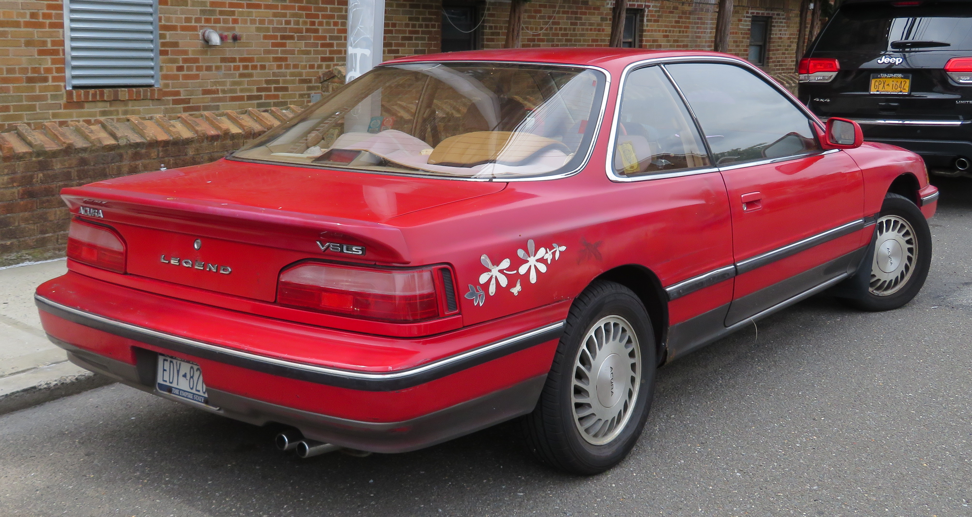 1990 Acura Legend Coupe in Bayside, NY(Old Pic)